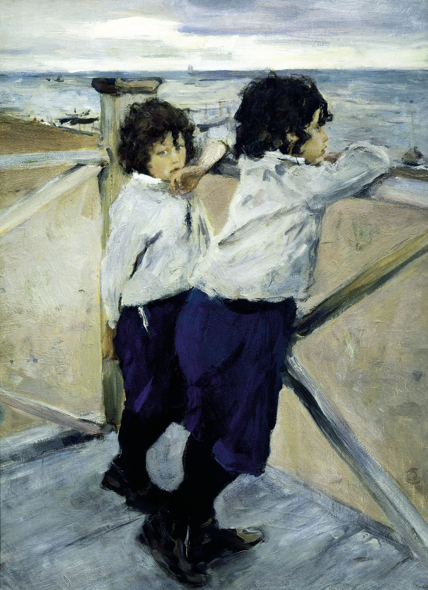 Children. Sasha and Yura Serov. 1899. Oil on canvas. The Russian Museum, St. Petersburg, Russia.